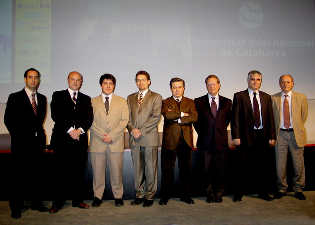 Opening meeting of the II Jornades Java Catalanes. From left to right: Fernando Suarez (IBM), Josep Figols (Sun MicroSystems), Jordi Pujol Ulied (AUJAC),Monte Kluemper (BEA),Juan Antoni Pastor (UNICA), ? (IBM),Miquel Boix Planes (Steria),Alvaro Rocabayera (MSS). The second "Jornades Java Catalanes" was celebrated at the Universitat Internacional de Catalunya, the 15th and 16th of April in 2004.